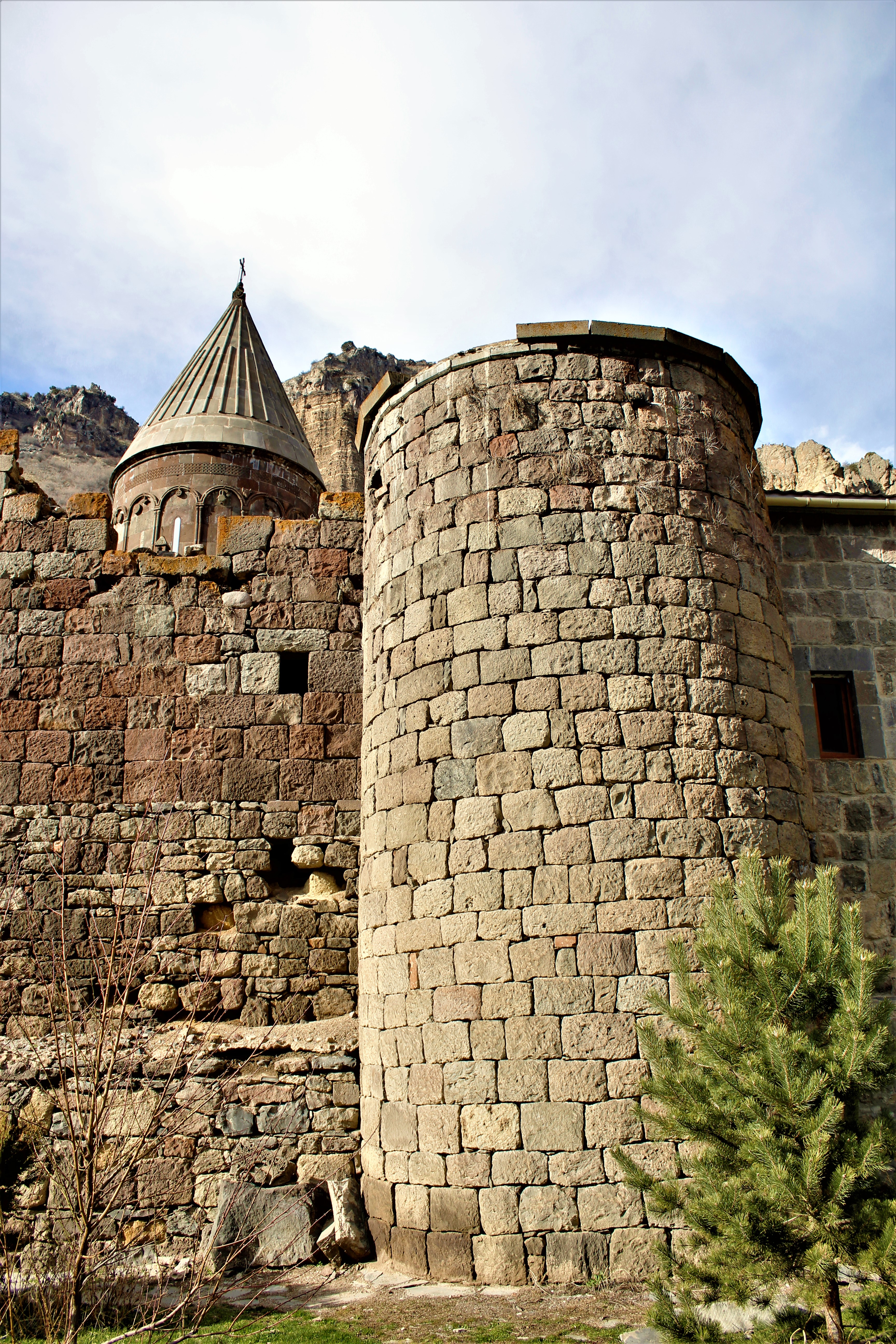 Round tower of the Geghard monastery wall.